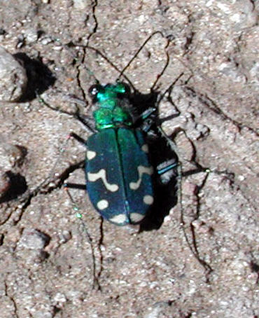 Cicindela oregona spp. maricopa, photographed in Haunted Canyon, Superstition Mountains, Pinal Co., Arizona, USA